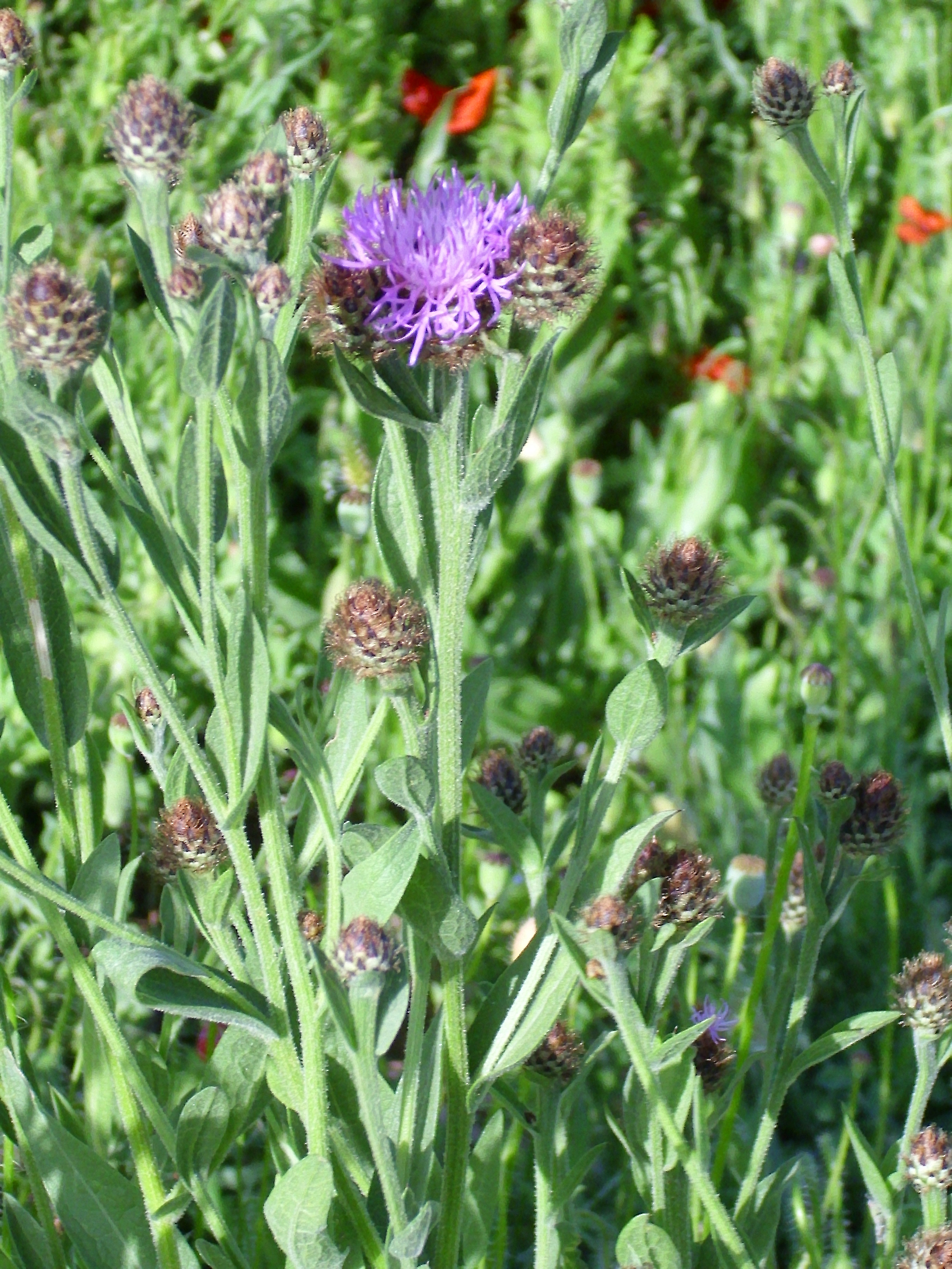 Centaurea nevadensis close up, Sierra Nevada, Spain